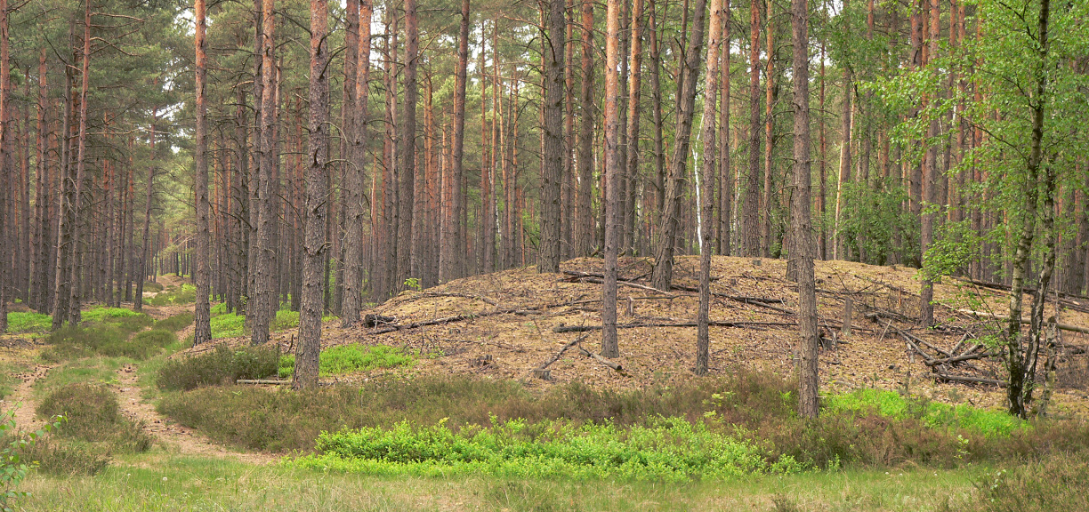 Inland dunes near the River Aller near Winsen (Aller), Lower Saxony, Germany